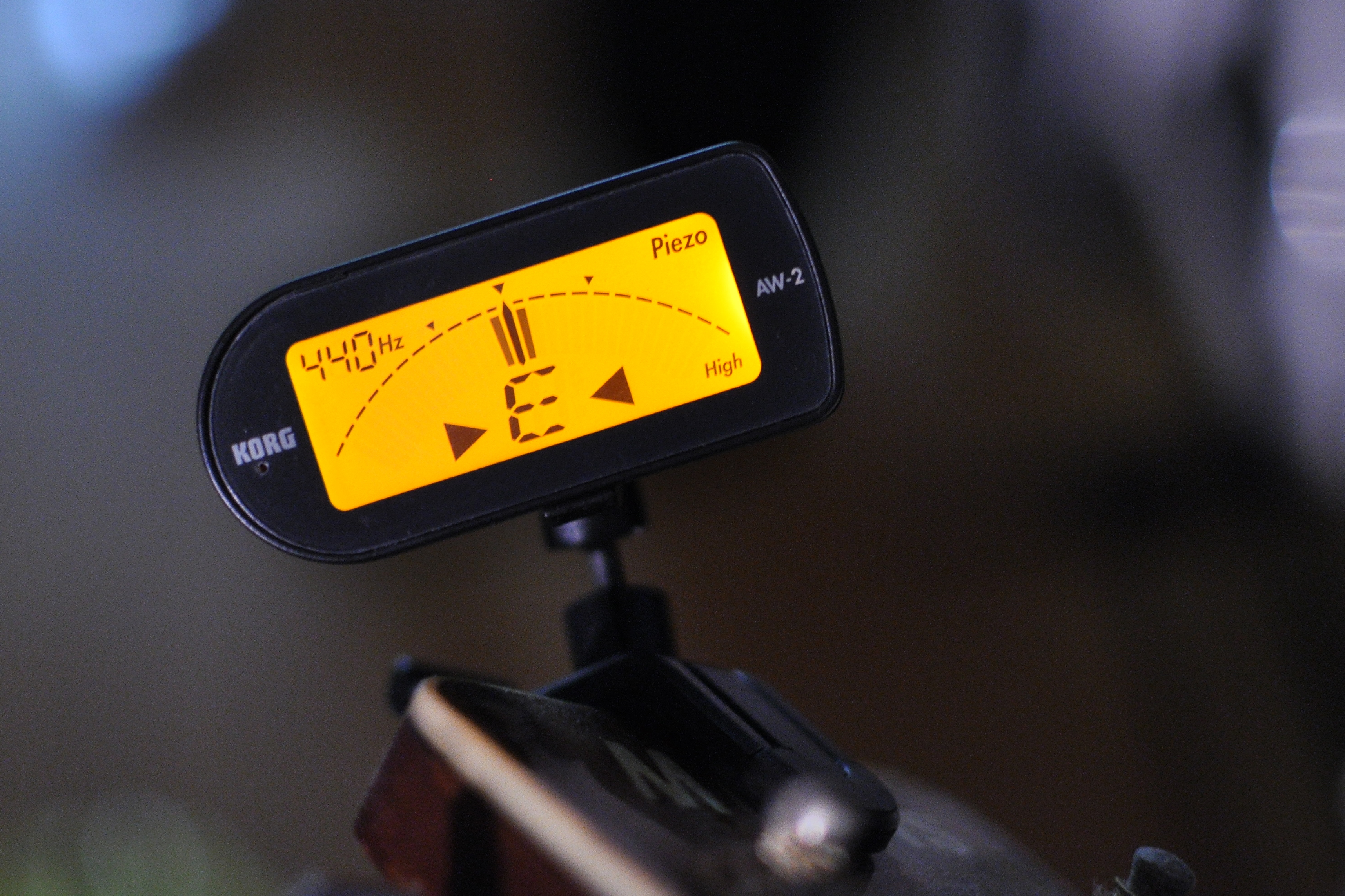 Korg AW-2 Clip-On Tuner